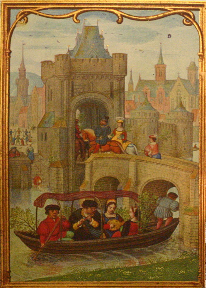 Hennessy getijdenboek, Koninklijke Bibliotheek België, Kalenderblad van de maand Mei